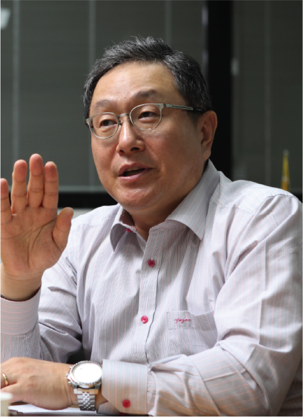 TaeguTec CEO